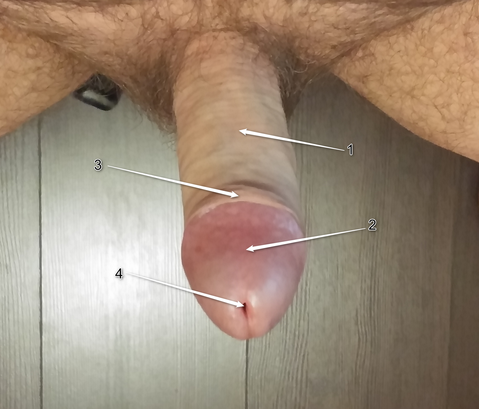 Anatomical diagram of the human penis : 1. penis body ; 2. penis glans ; 3. foreskin ; 4. meatus urethral.